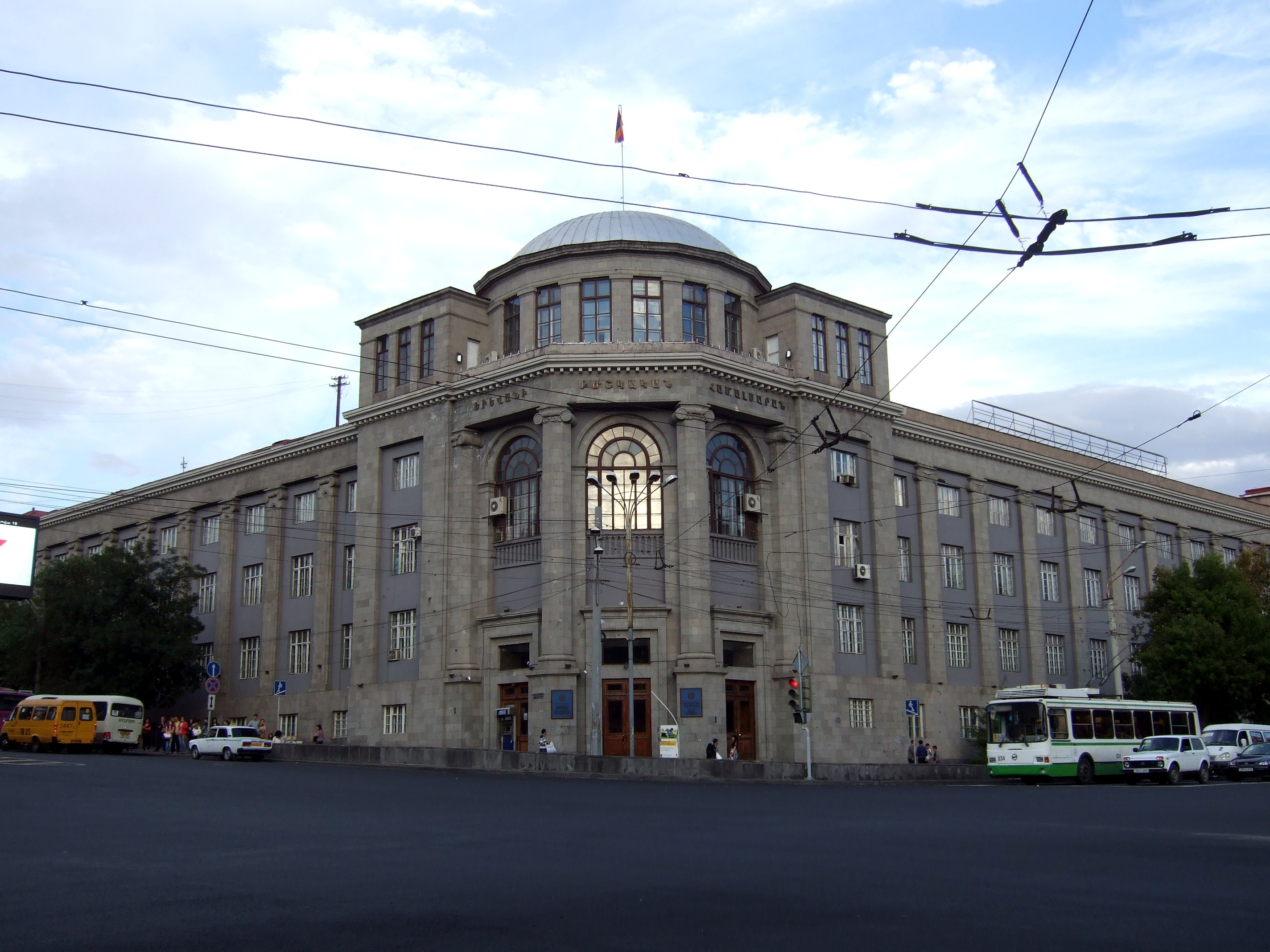 Yerevan State Medical University 6/89